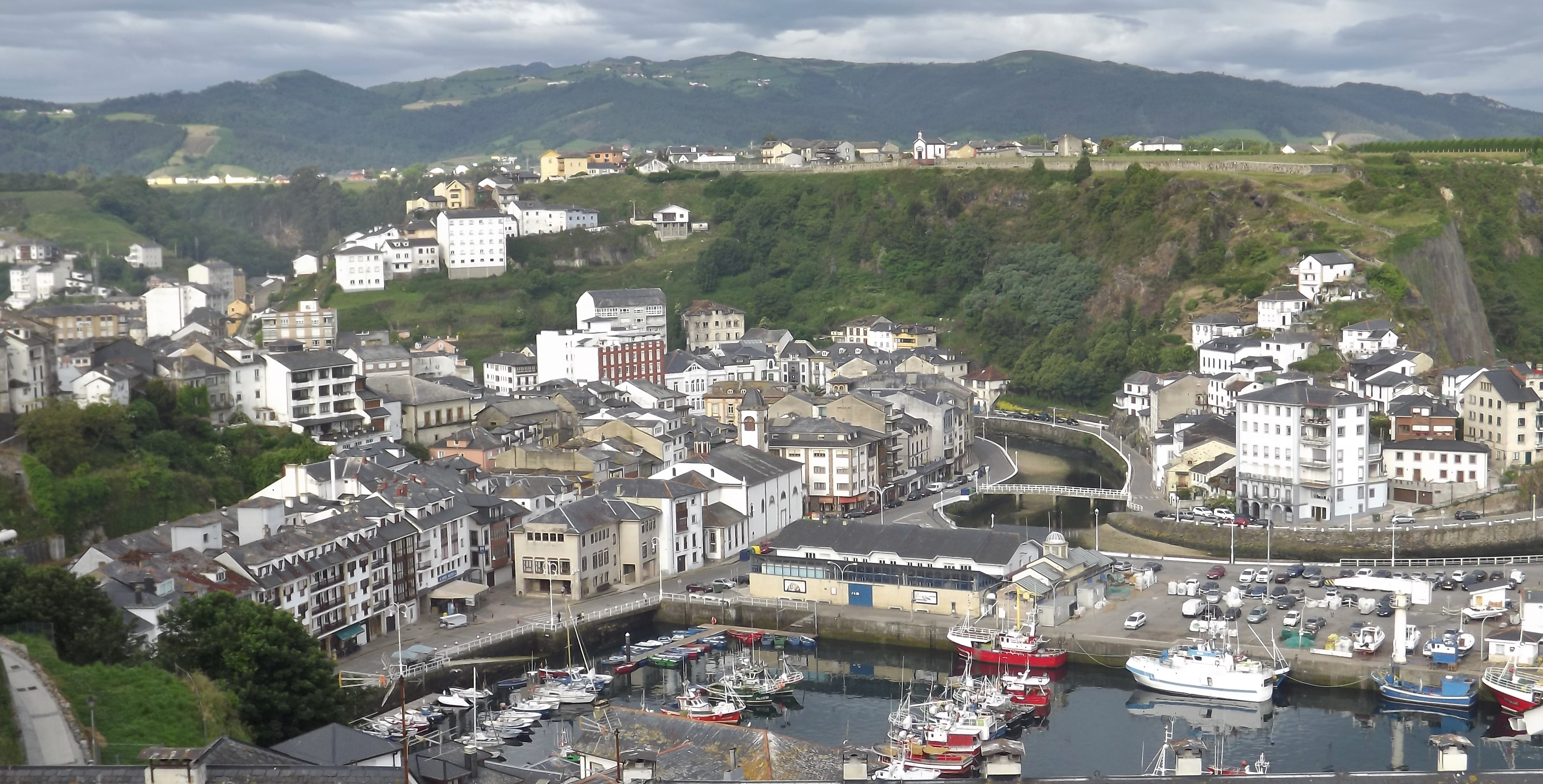 Luarca